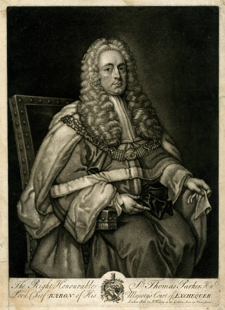 Portrait of Thomas Parker (1695-1784), English judge.